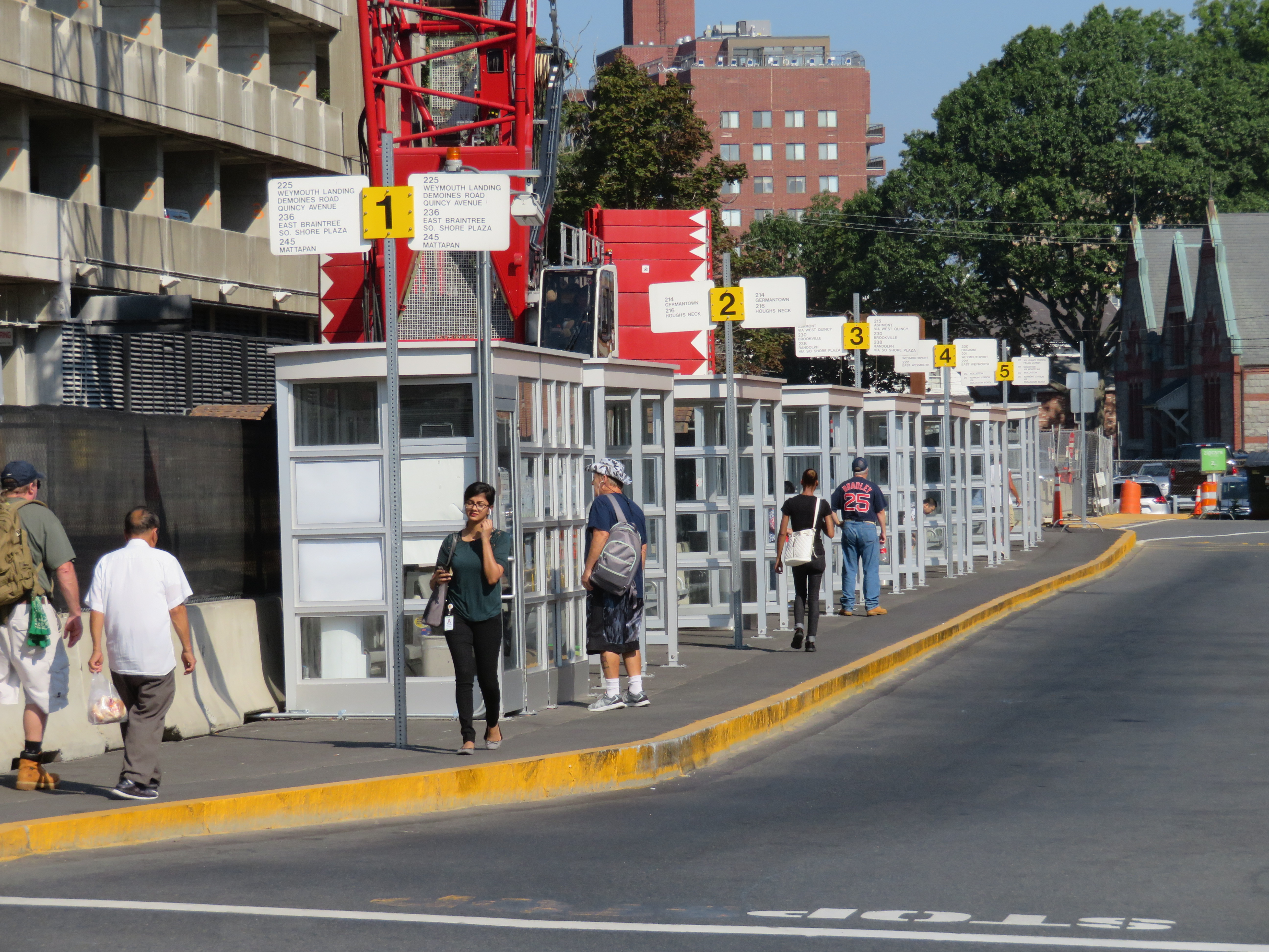 The temporary relocated bus terminal during demolition of the old garage at Quincy Center station in August 2018